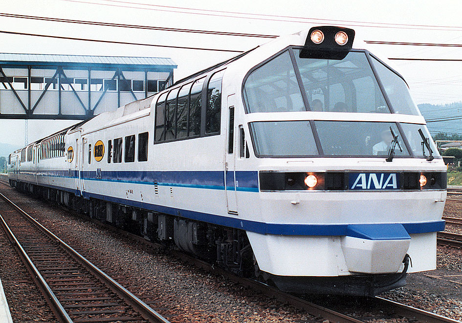 JR Hokkaido KiHa 80 series "Furano Express" DMU in "ANA Big Sneaker" colour scheme